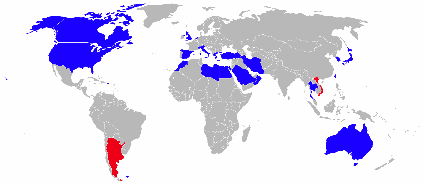 World map of CH-47 Chinook operators